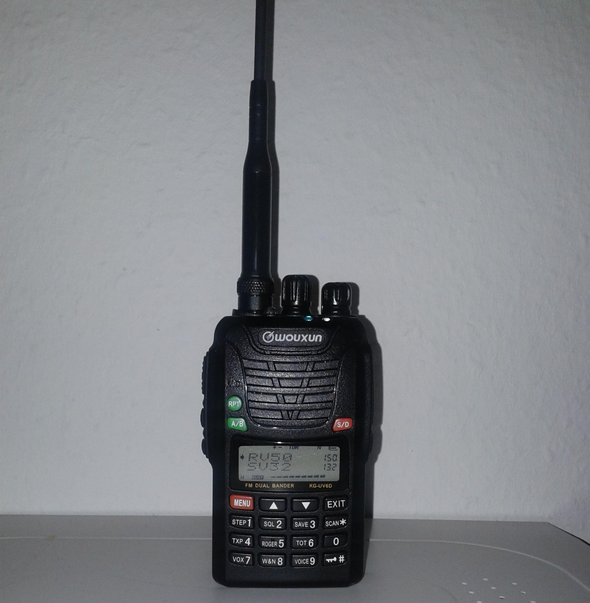 The KG-UV6D version are available for two duo band constellations: 4m/2m: special version for the 4m ham band f.e. UK (70 Mc), overall 66-88 Mc 2m/70cm: 'usual' ham version with 400-520 Mc available and both versions with 136-174 MHz, all transmittable! Das KG-UV6D gibt es in 2 verschiedenen Dualband-Versionen: 4m/2m: spezielle Variante für das 4m-AFu-Band z.B. England (70 MHz), insgesamt 66-88 MHz 2m/70cm: 'normale' AFu-Version mit 400-520 MHz verfügbar und bei beiden Varianten mit 136-174 MHz, überall sendefähig!